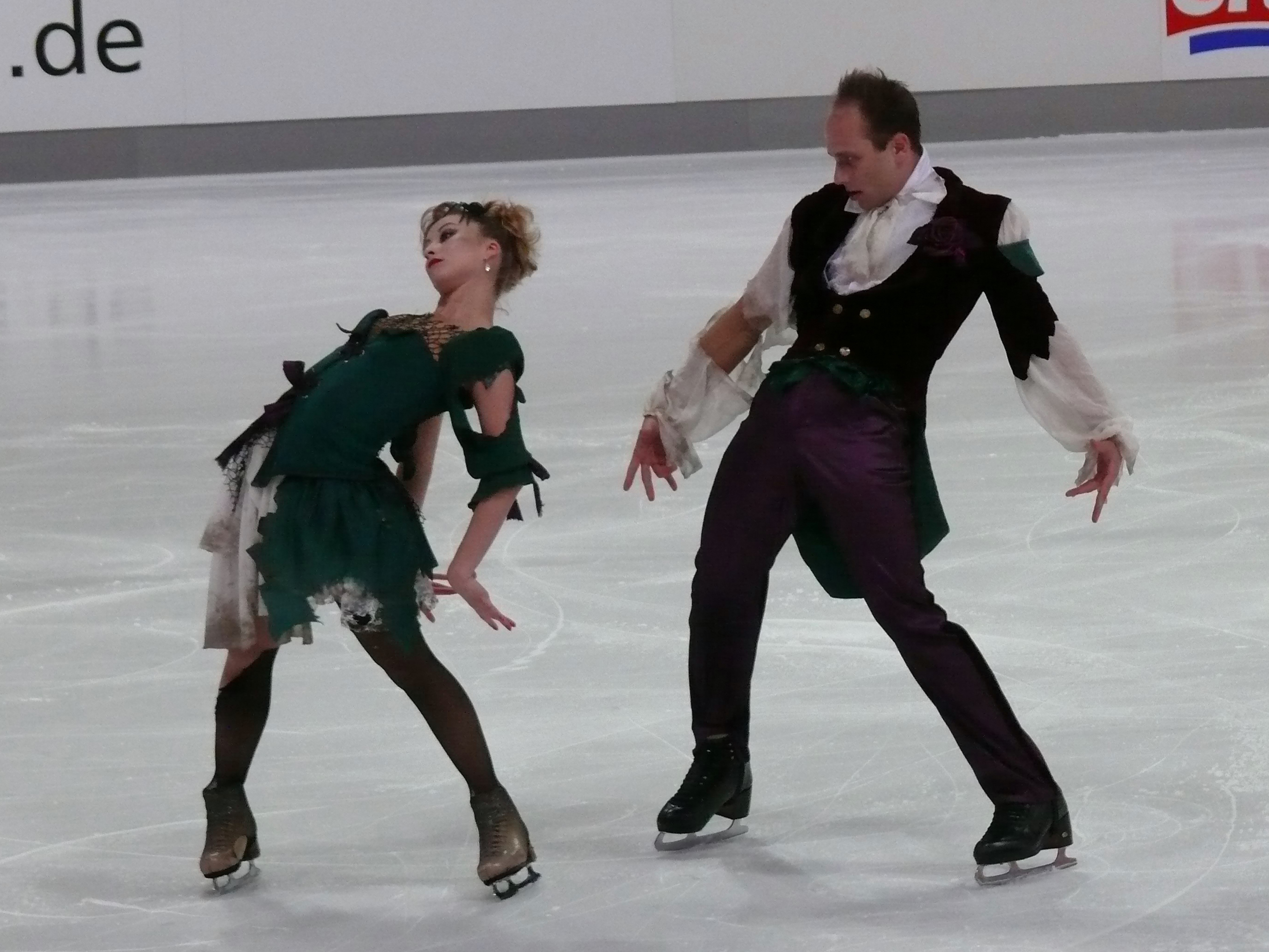 Nelli Zhiganshina and Alexander Gazsi at their free program at the Nebelhorn Trophy 2012 in Oberstdorf/Germany